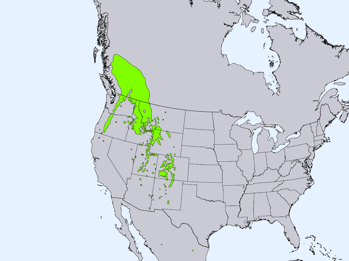 Range distribution maps of Picea engelmannii — Engelmann spruce in western North America.